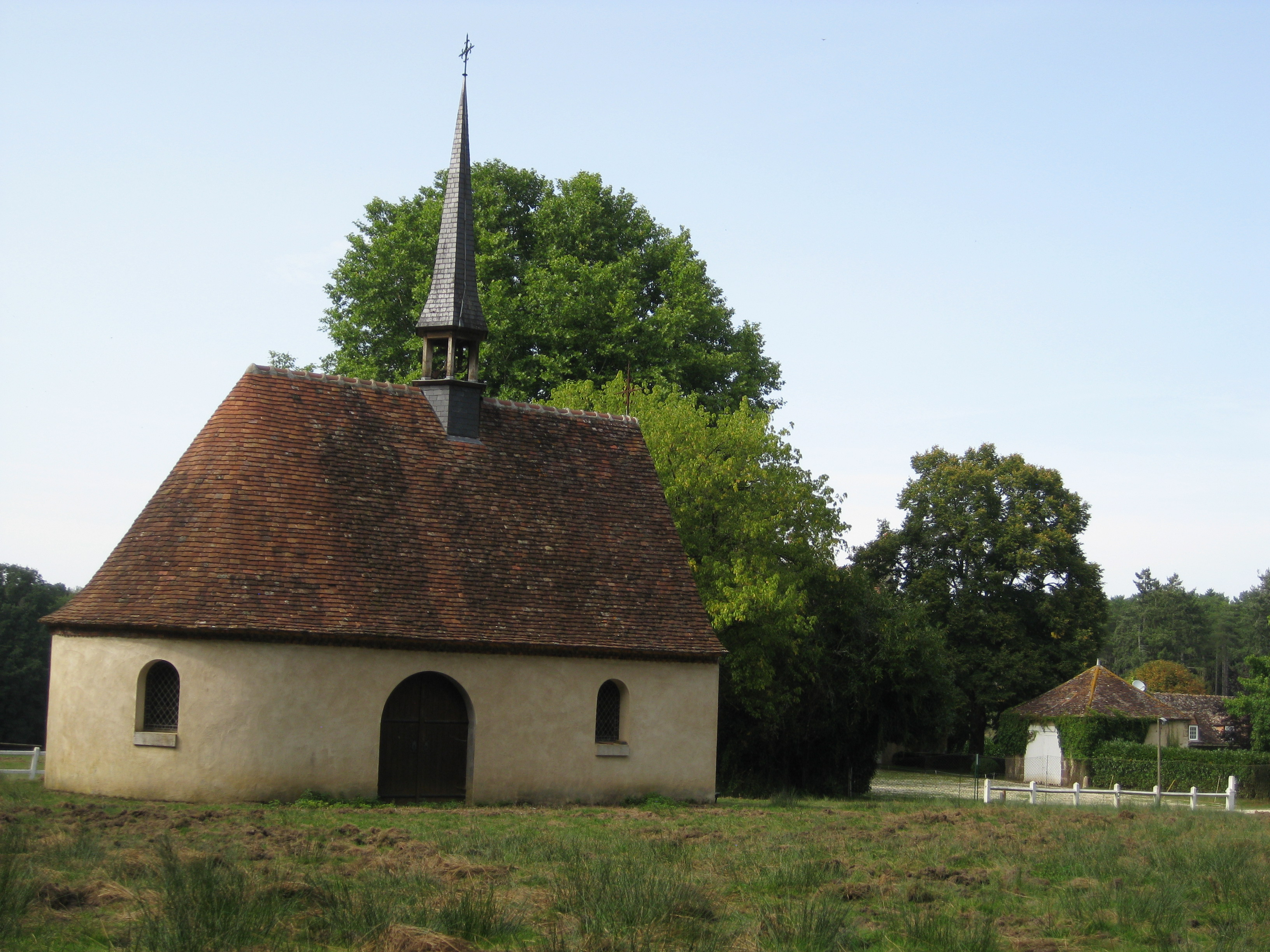 In the nature parc (~1,000 acre, created in 1968) of the old priory, now castle of Boutissaint, near Treigny in Puisaye, south of Yonne departement, Bourgogne, France. Sainte-Langueur chapel, 80 m south of the castle.